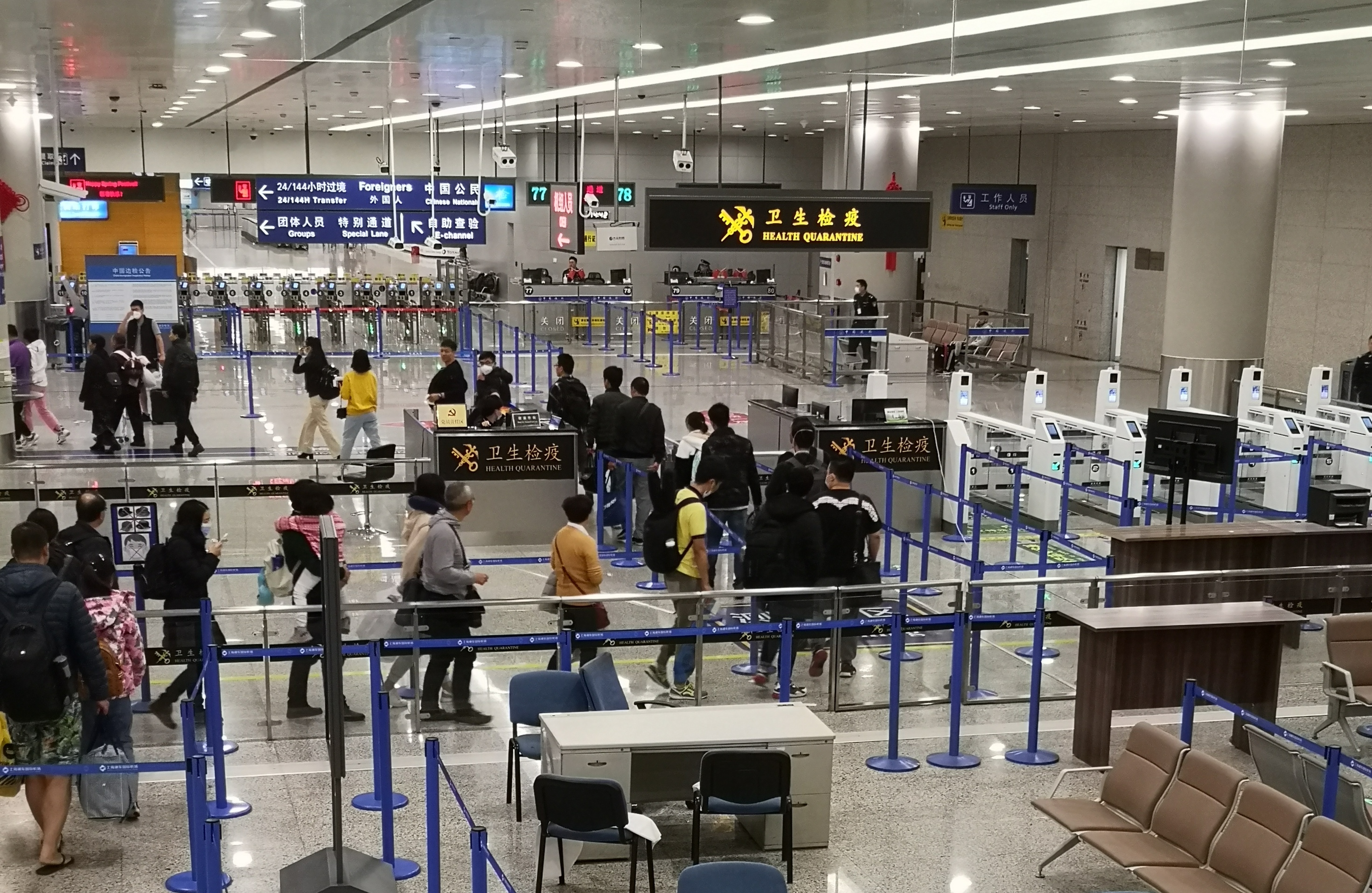 Thermal monitoring station to screen inbound passengers at Shanghai Pudong International Airport